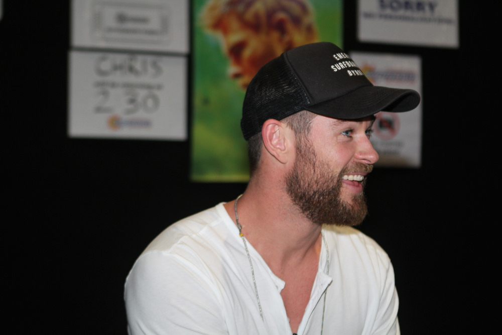 Chris Hemsworth